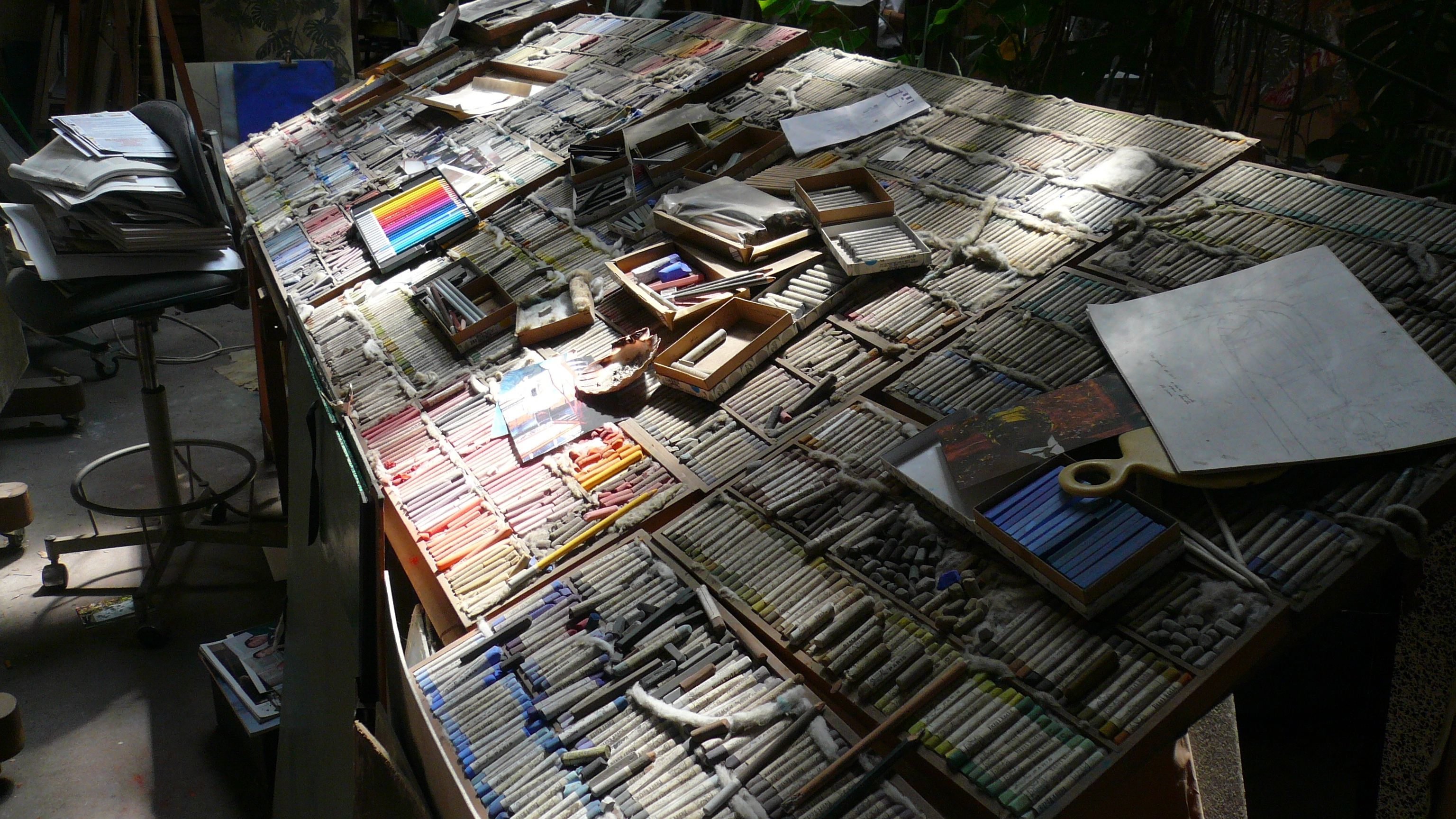 Pastells in the artist's studio